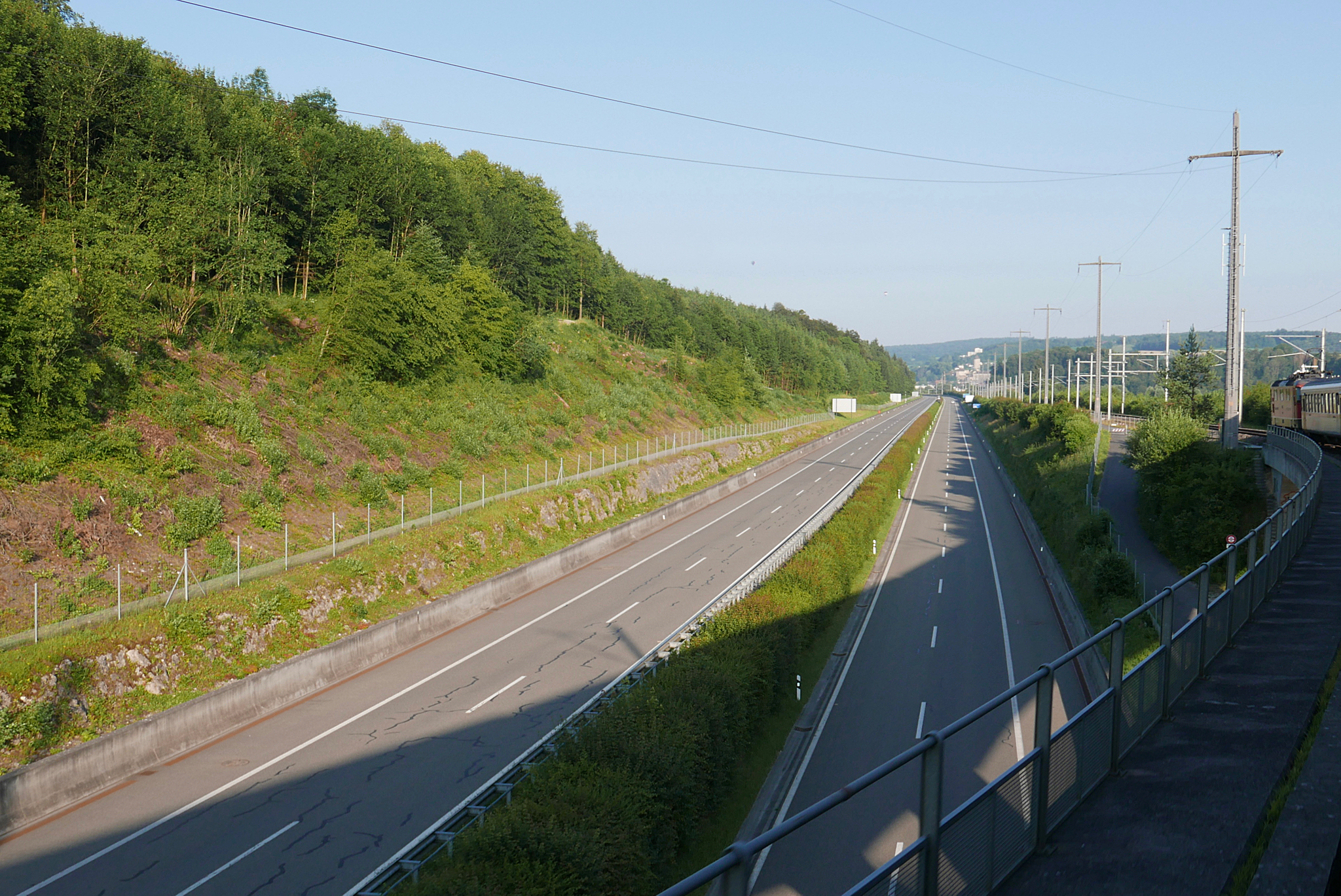 A16 motorway at Porrentruy.